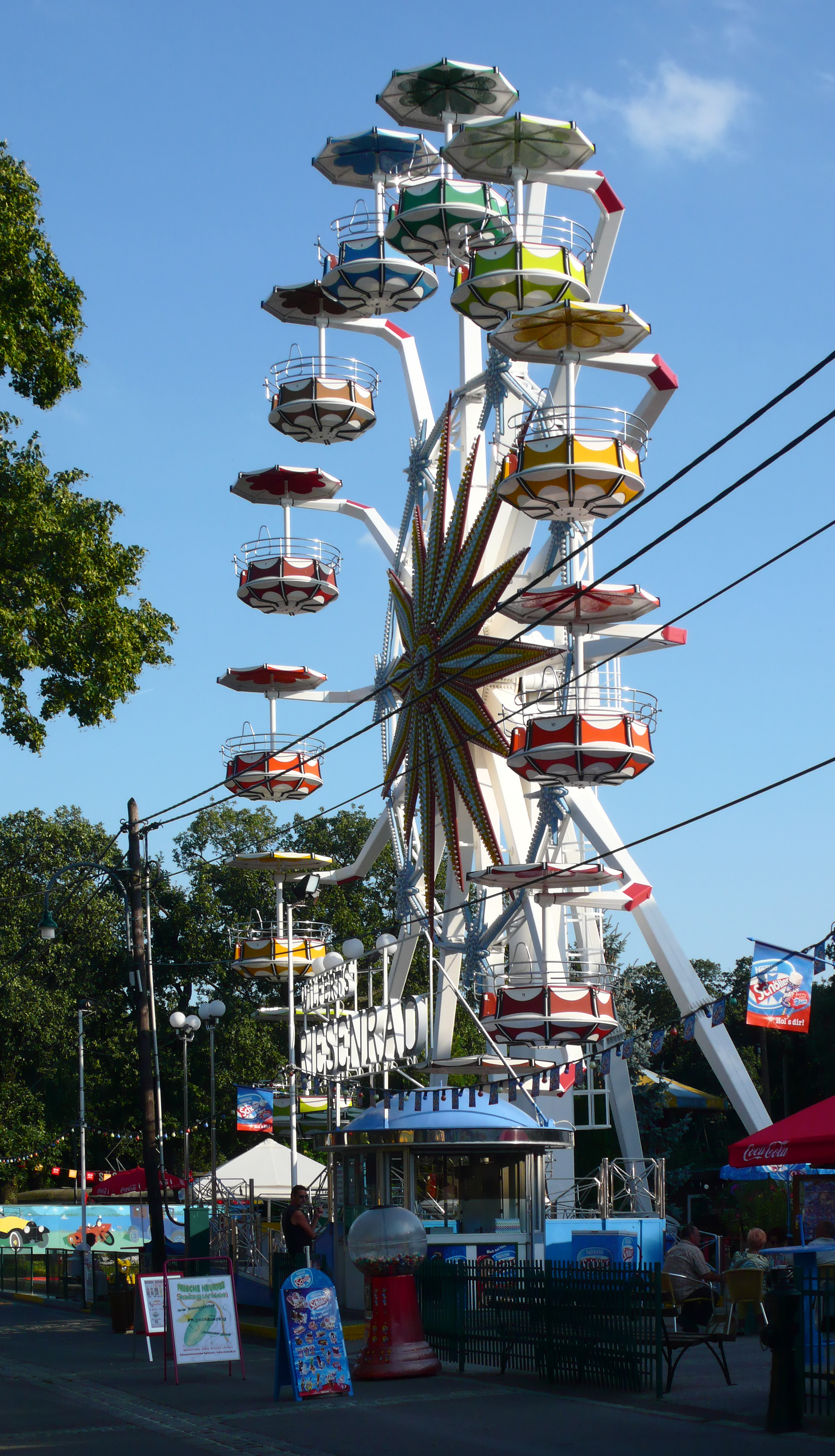 Theme park "Böhmischer Prater" in Vienna, 10. district, ferry wheel